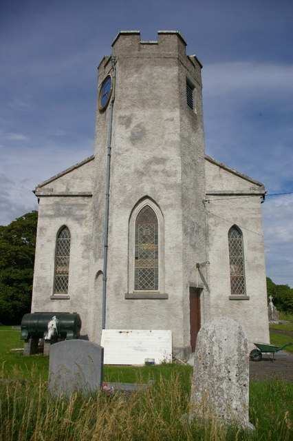 Ardrahan Church This church is of unknown dedication ...